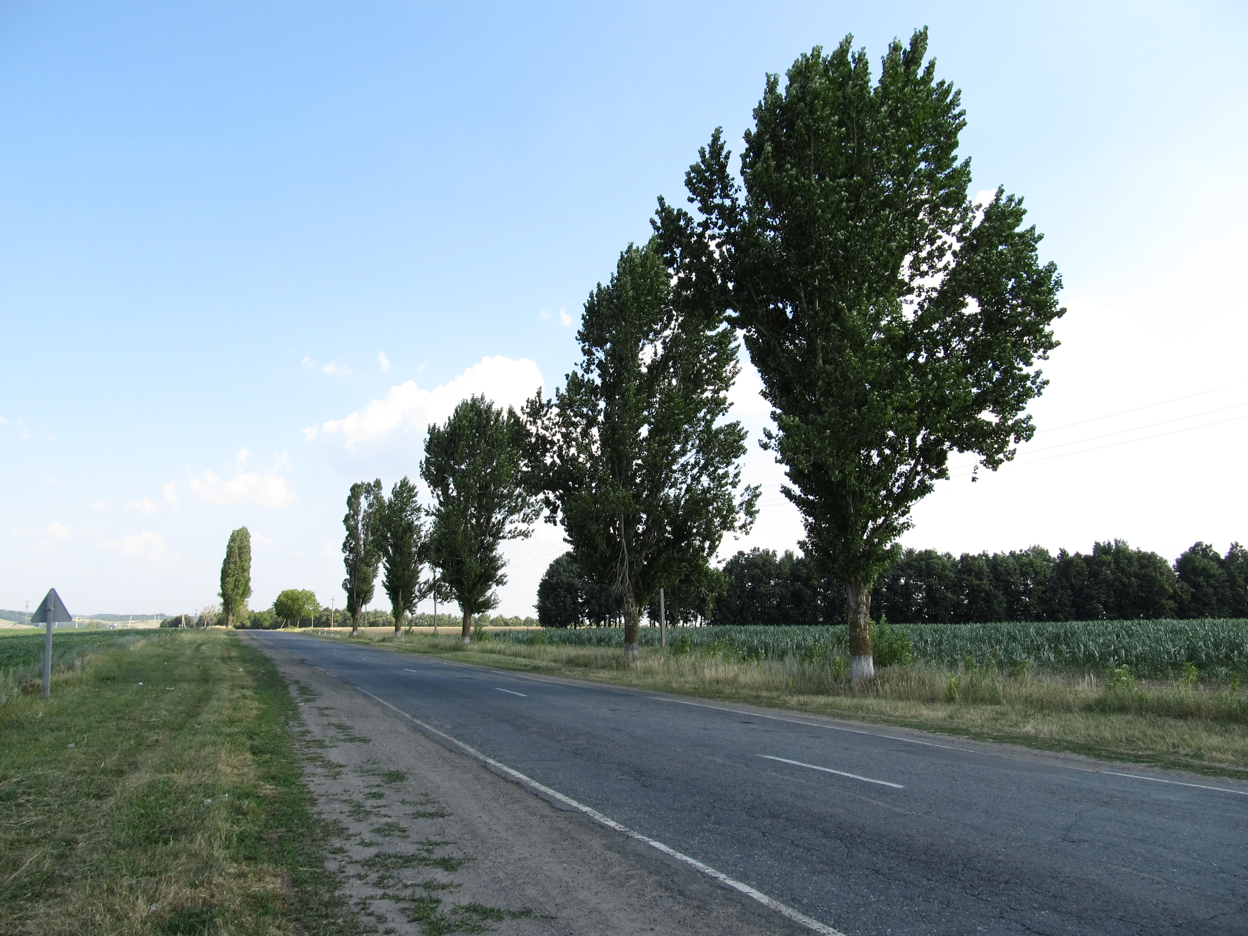 Highway P 04 (Ukraine) near the villiage of Nemorozh